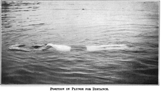 Photo of a float during a plunging event.